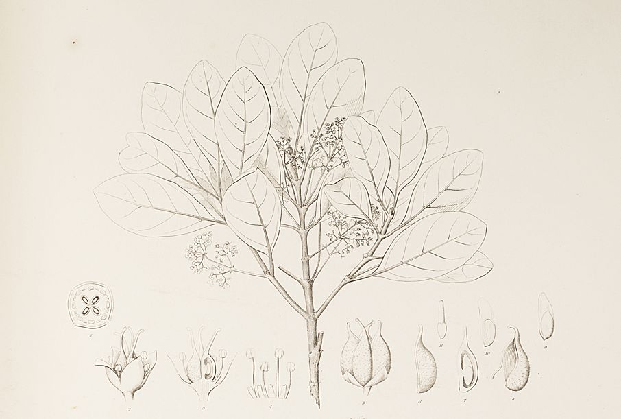 Illustration of Spiraeanthemum vitiense (Cunoniaceae)